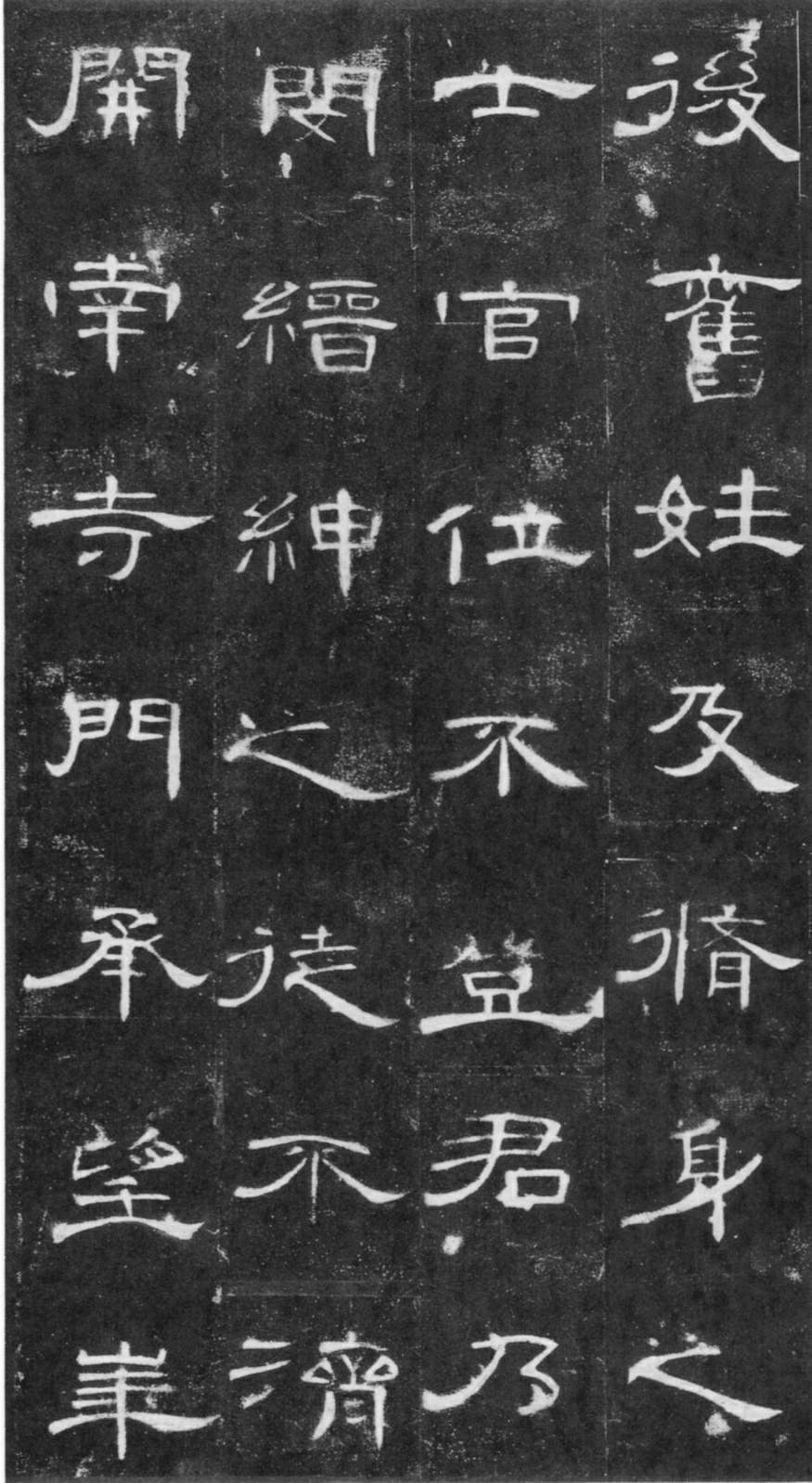 Cao quan bei (written in 185 years.)